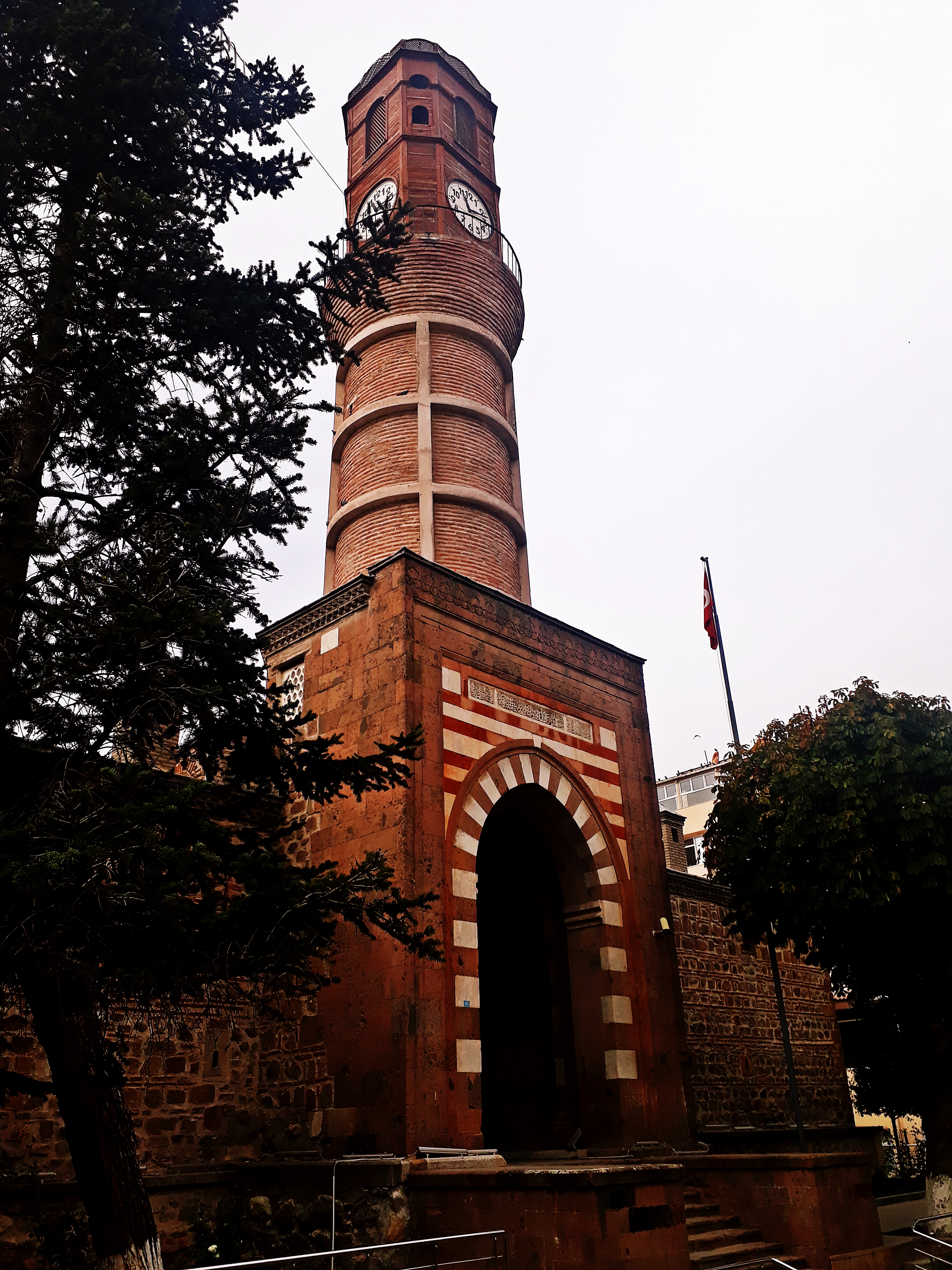 Merzifon (in Turkey) Clock Tower